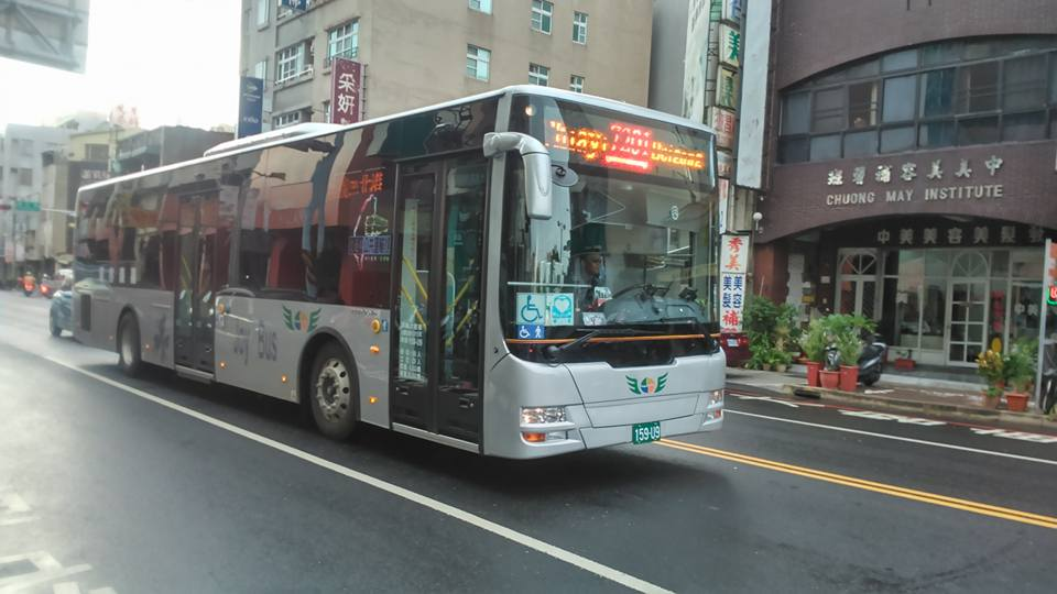 Chiayi Bus GOLDEN DRAGON XML6125 (Non-step Bus) 159-U9 中文（台灣）: 嘉義客運 金旅客車XML6125 (低地板公車) 159-U9